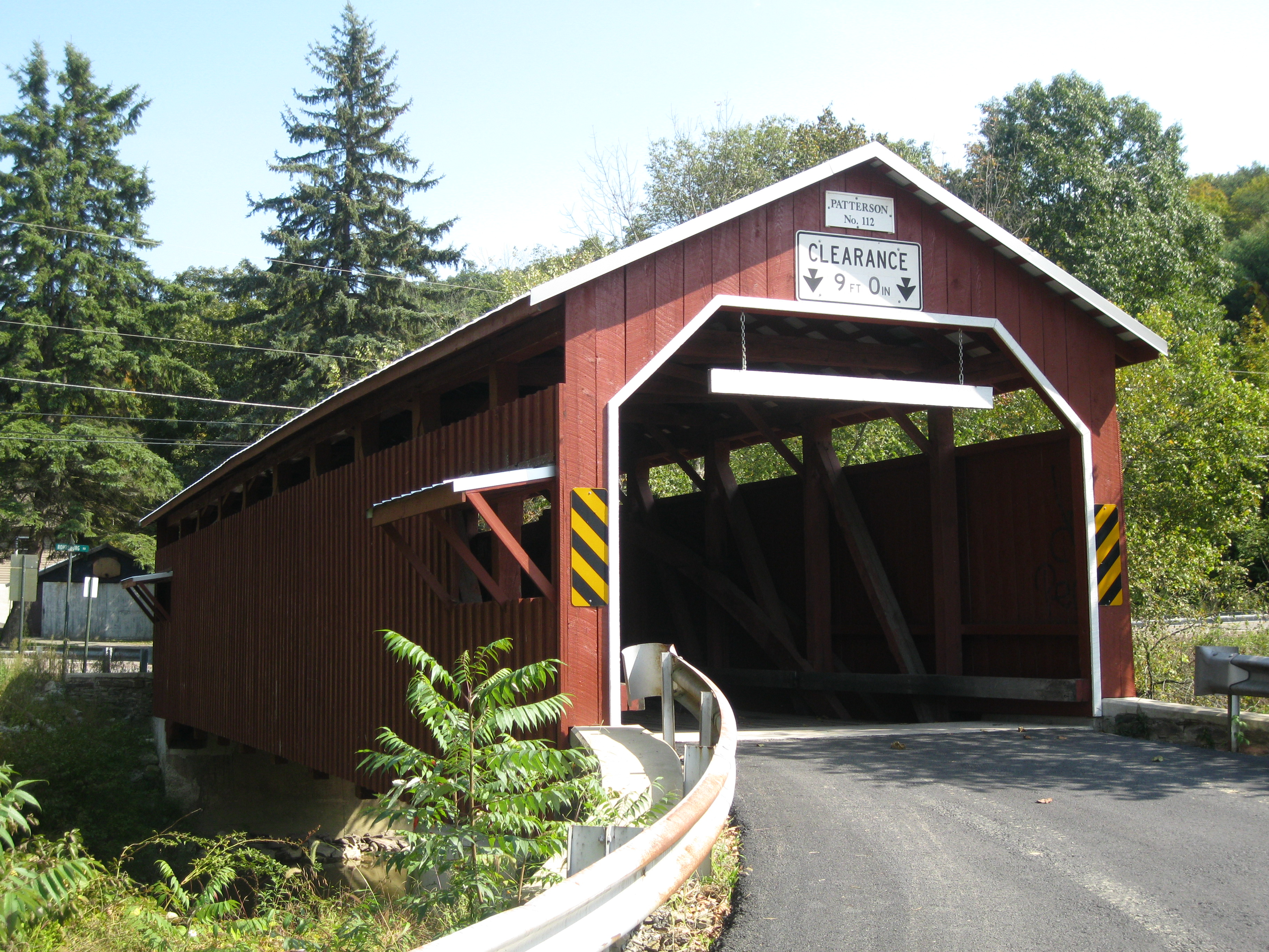 Patterson Covered Bridge No. 112 built in 1881 over Green Creek in Orange Township in Columbia County, Pennsylvania in the United States.